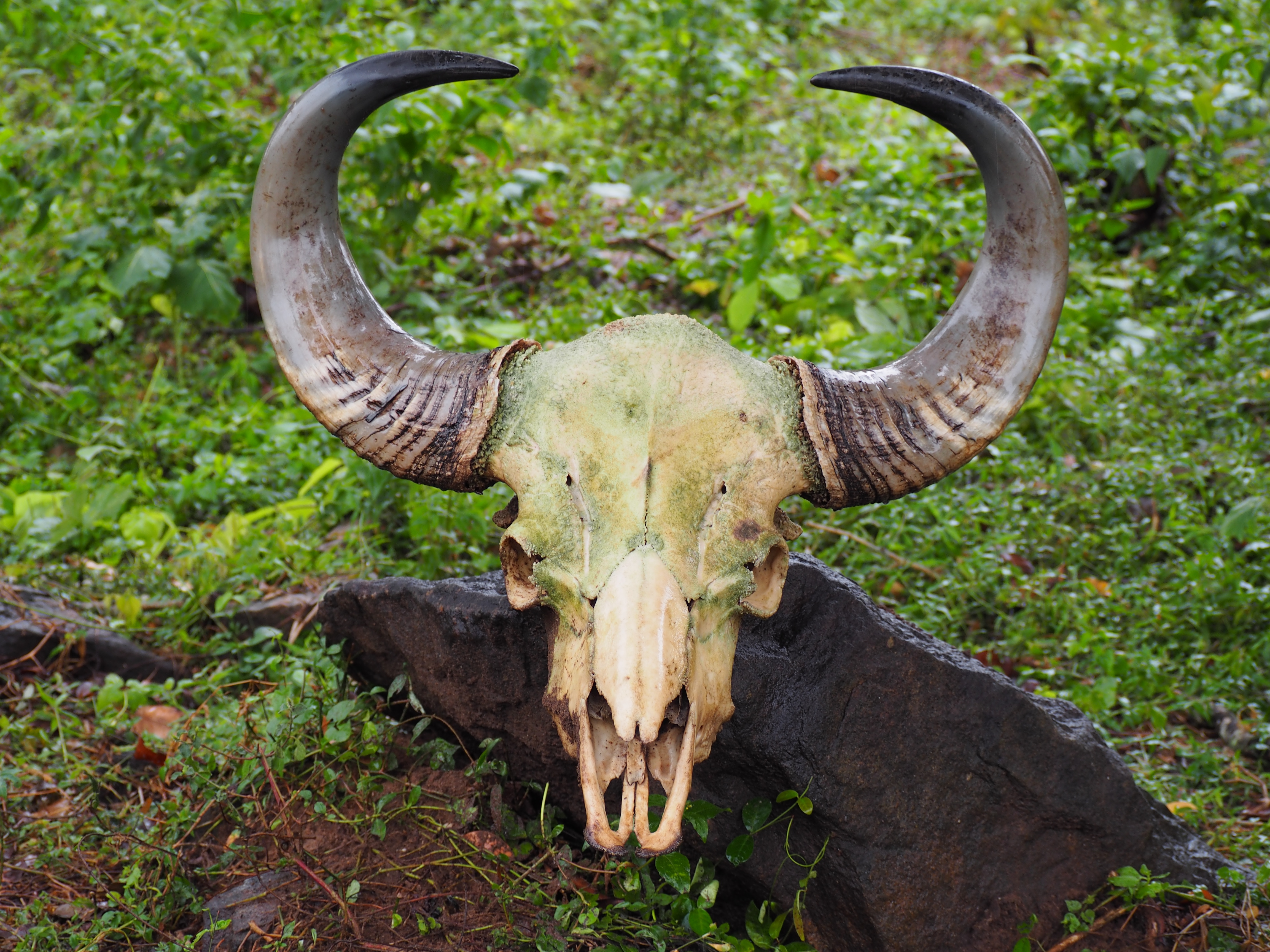 A Gaur skull found at Parambikulam